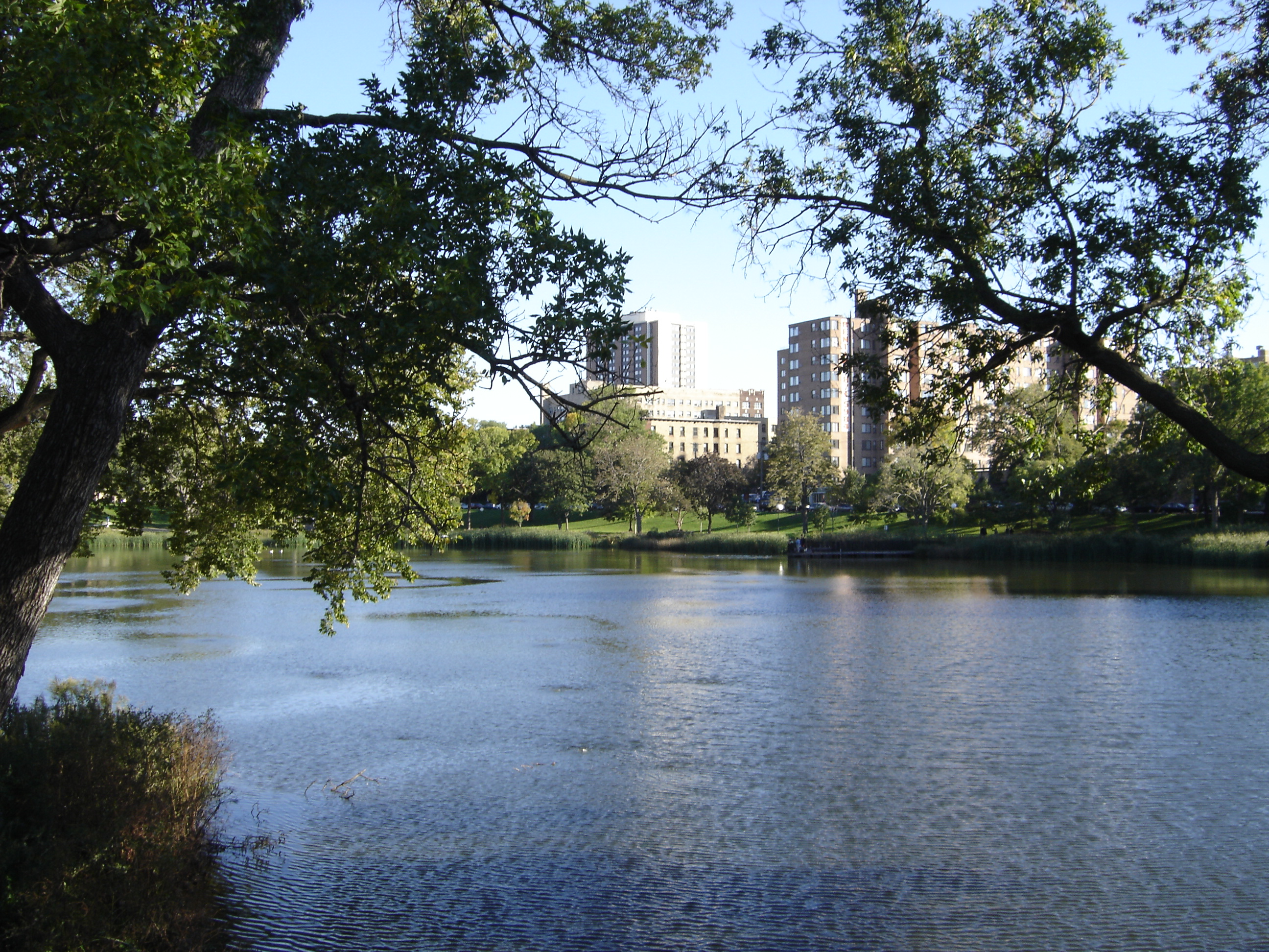 Lake in Loring Park, Minneapolis.